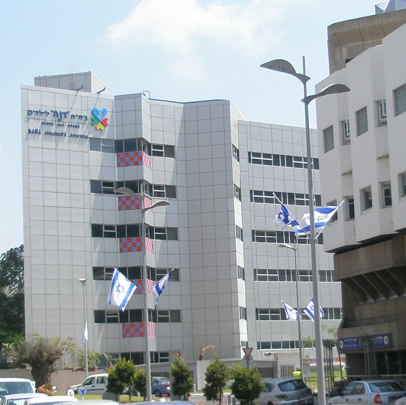 Dana Children's Hospital, Tel Aviv